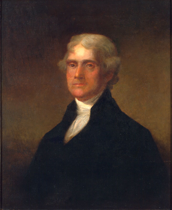 ThomasJefferson-Painting.jpg